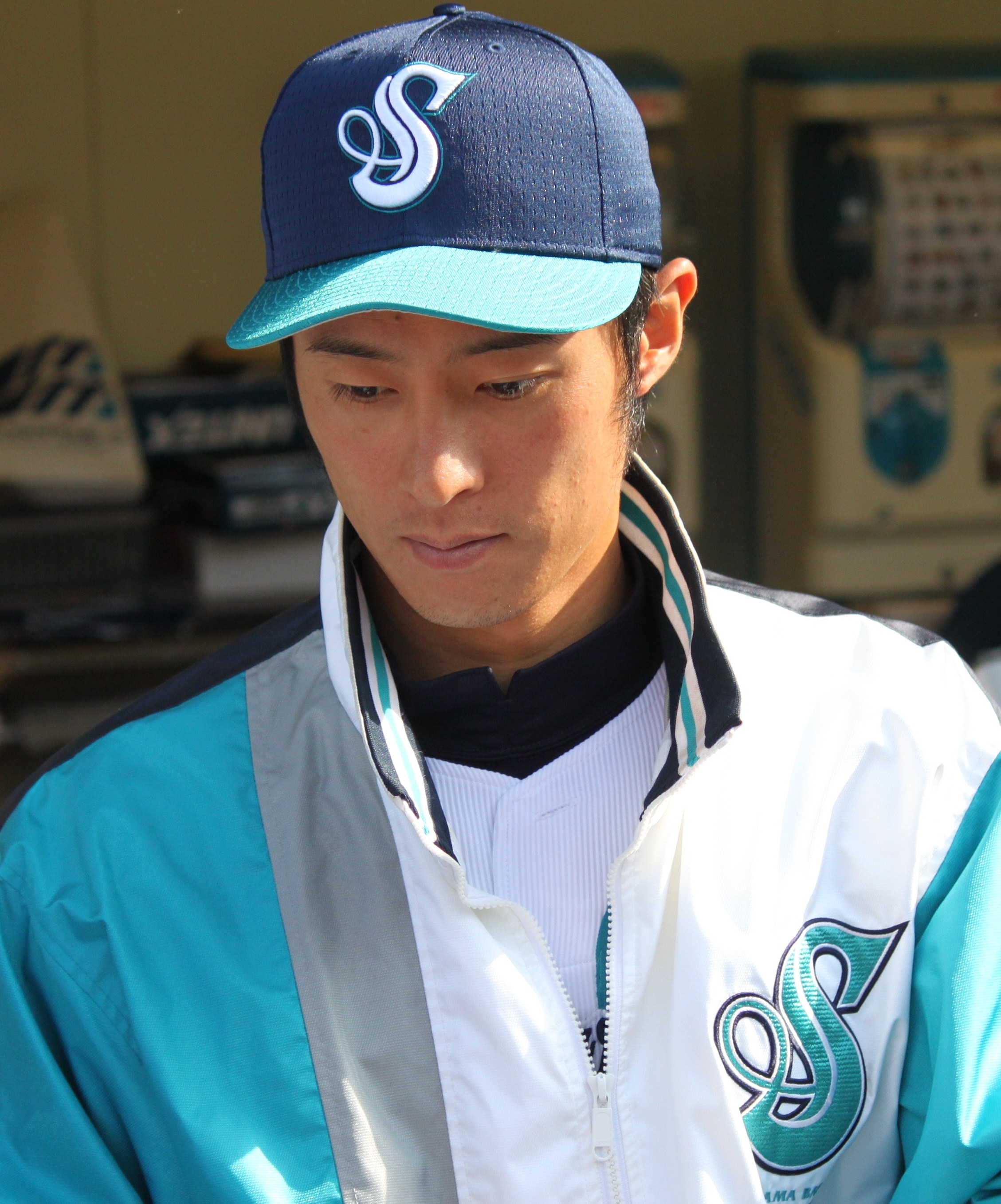 Takehiro Fukuda, pitcher of the Shonan Searex, at Yokosuka Stadium.